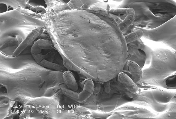 Scanning Electron Microscope image of an Acari